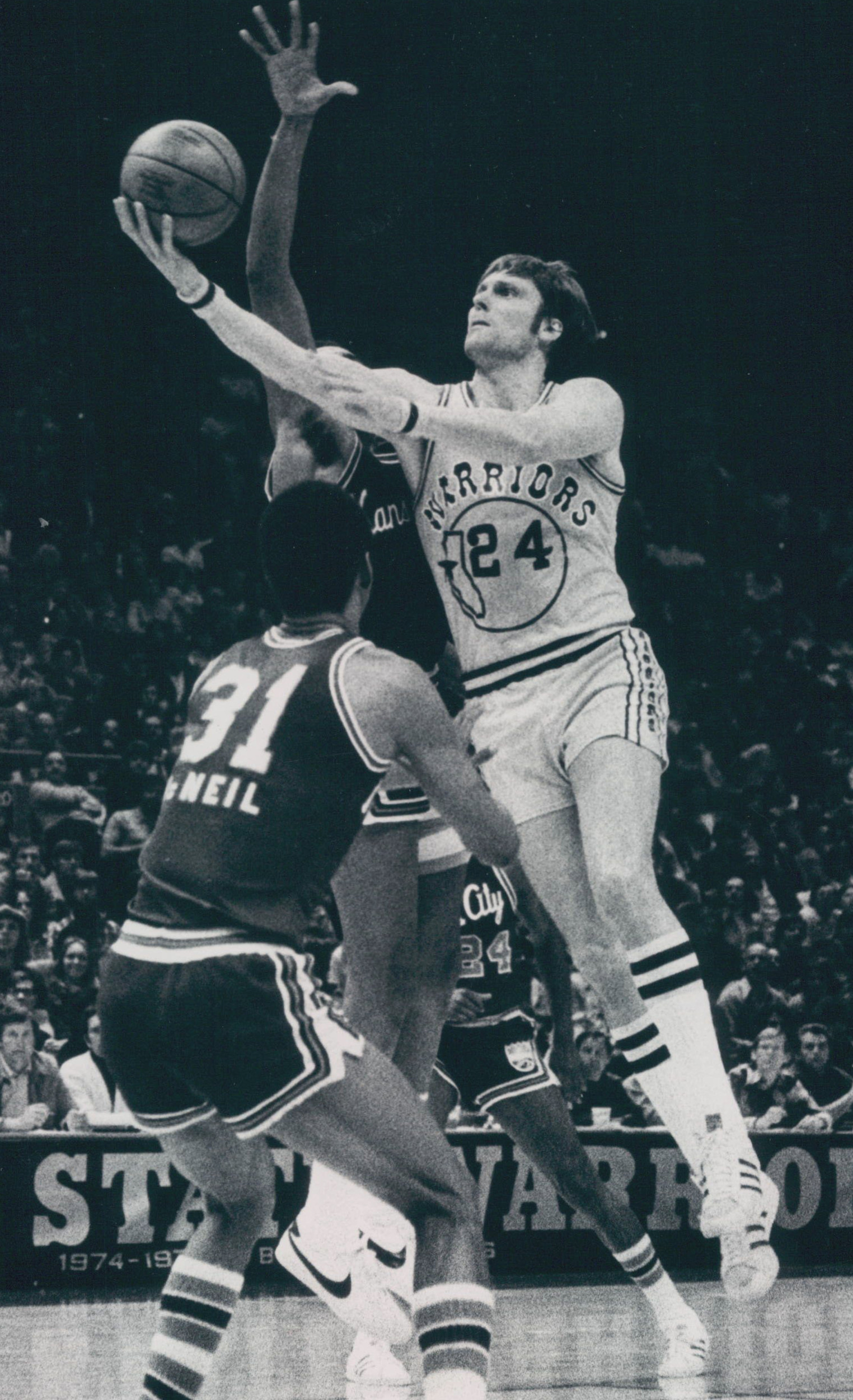 Professional basketball player Rick Barry